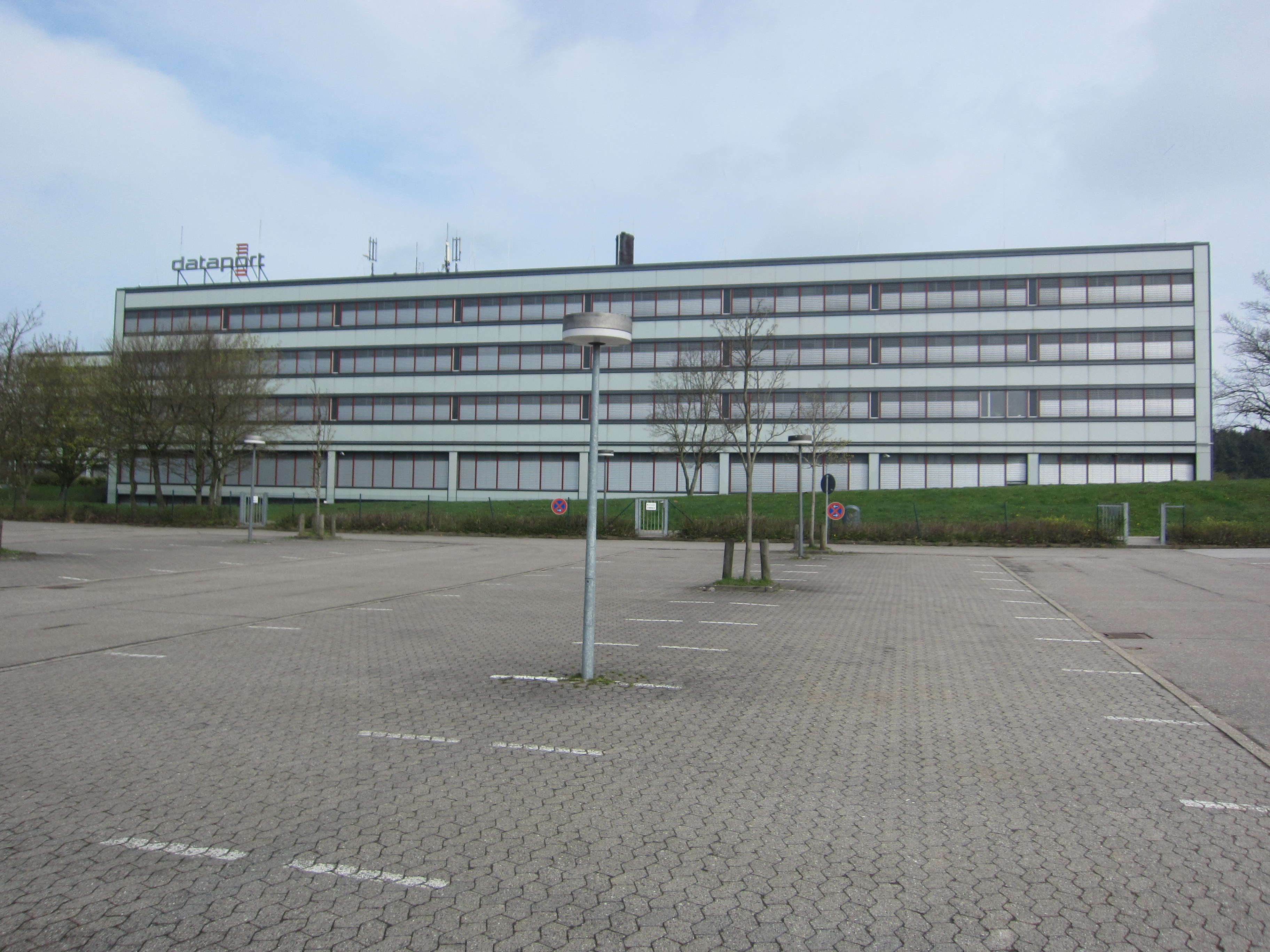 Dataport in Altenholz-Klausdorf